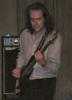 Jon "Jops" Hare Performing at St Lukes with SID80s